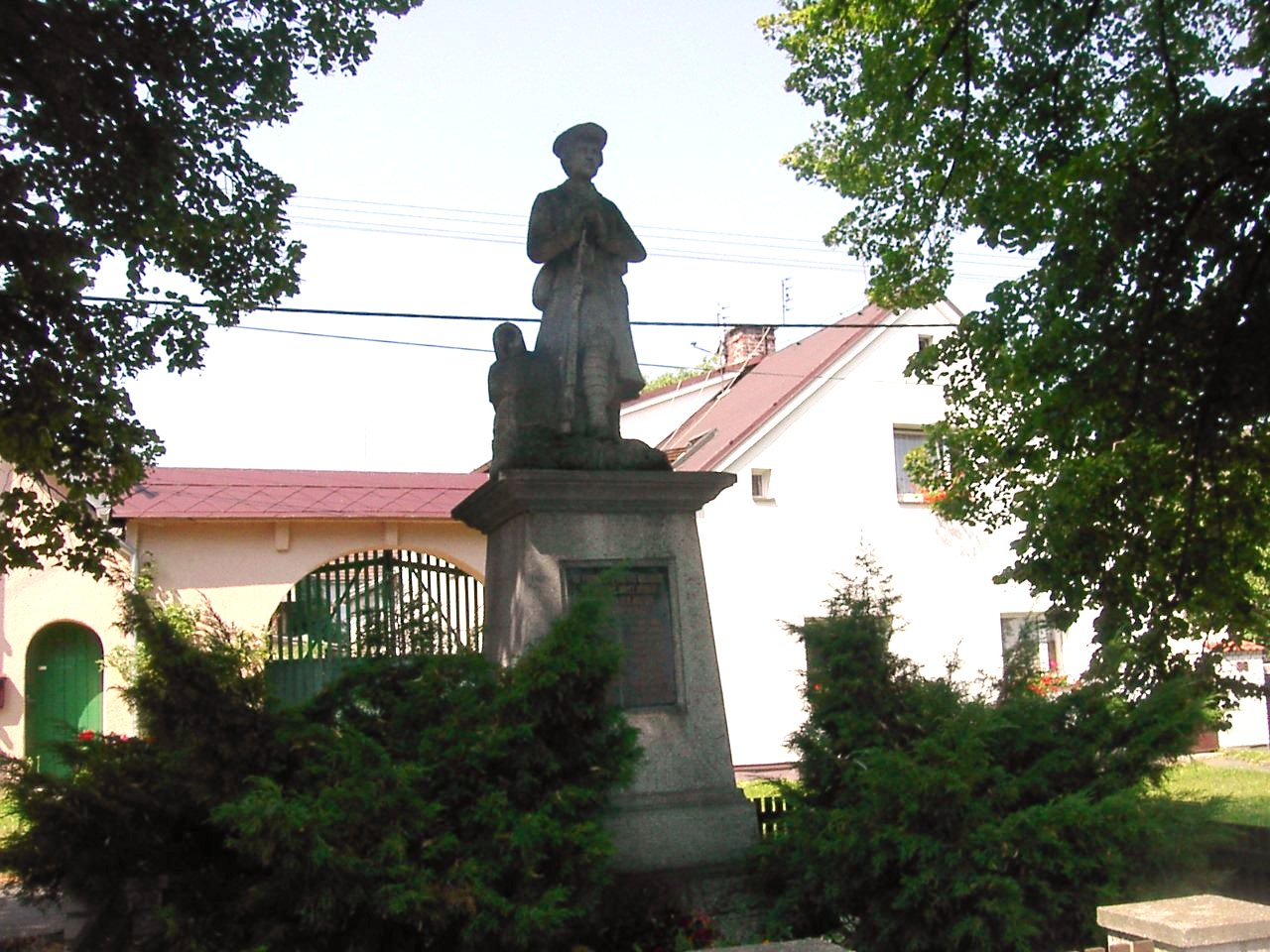 Statue of Jan Hus in Chodov, Czech Republic.